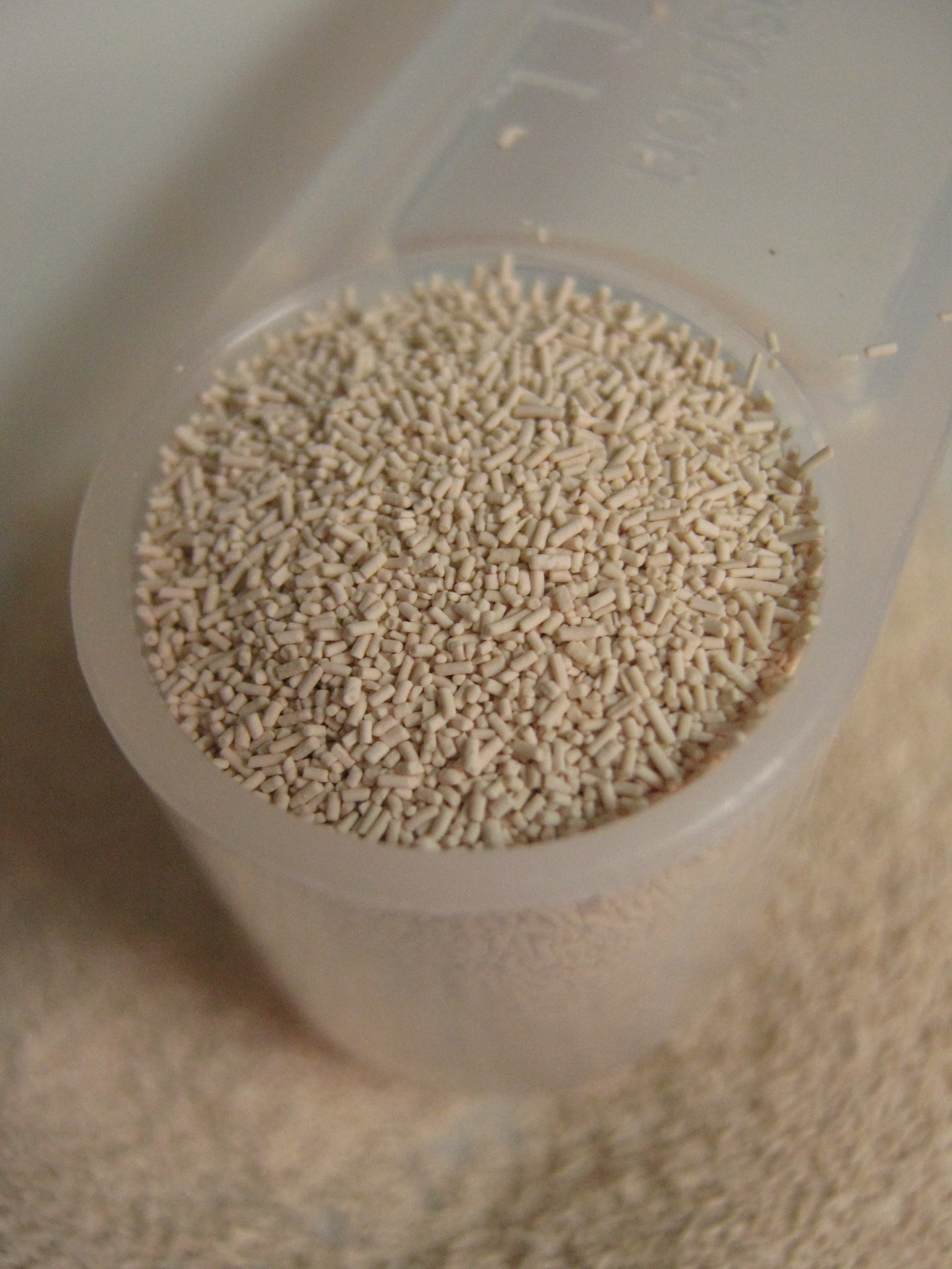 Baker's yeast. Instant yeast.